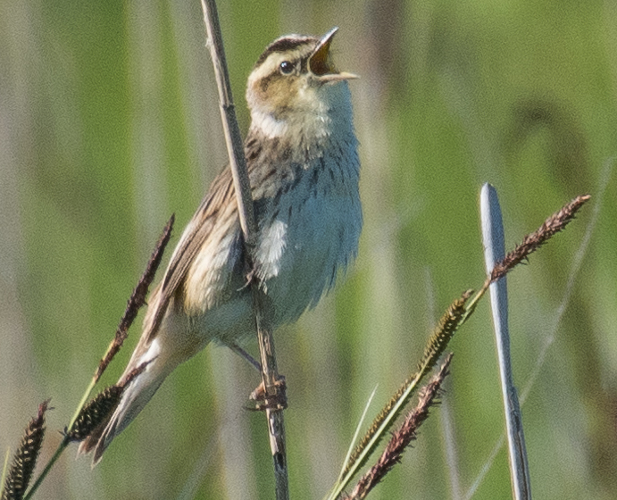 Aquatic warbler (Acrocephalus paludicola). Singing male in its breeding ground (Bagno Lawki, Trzcianne, Podlaskie Voivodeship, Poland)